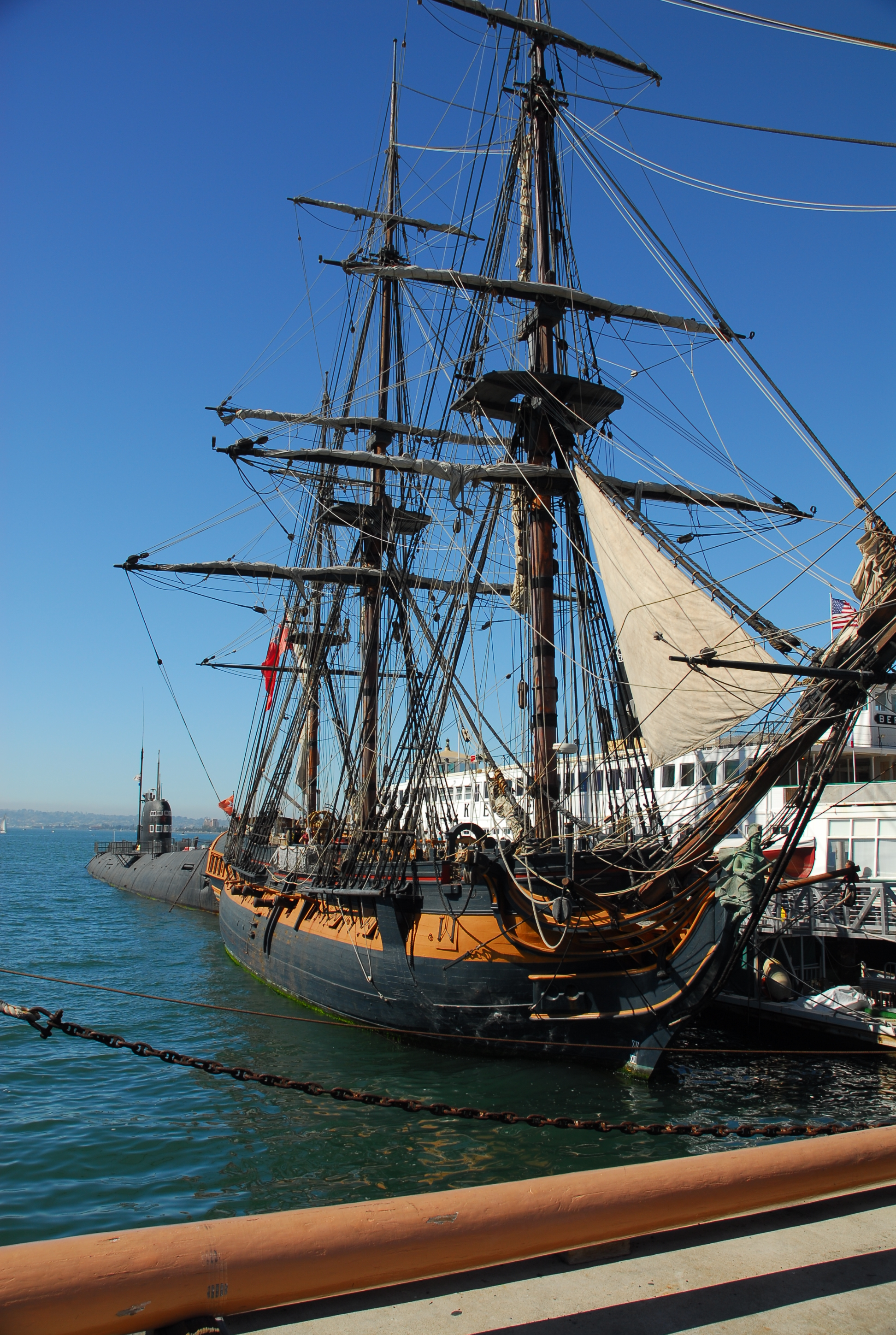 HMS Surprise (replica ship)